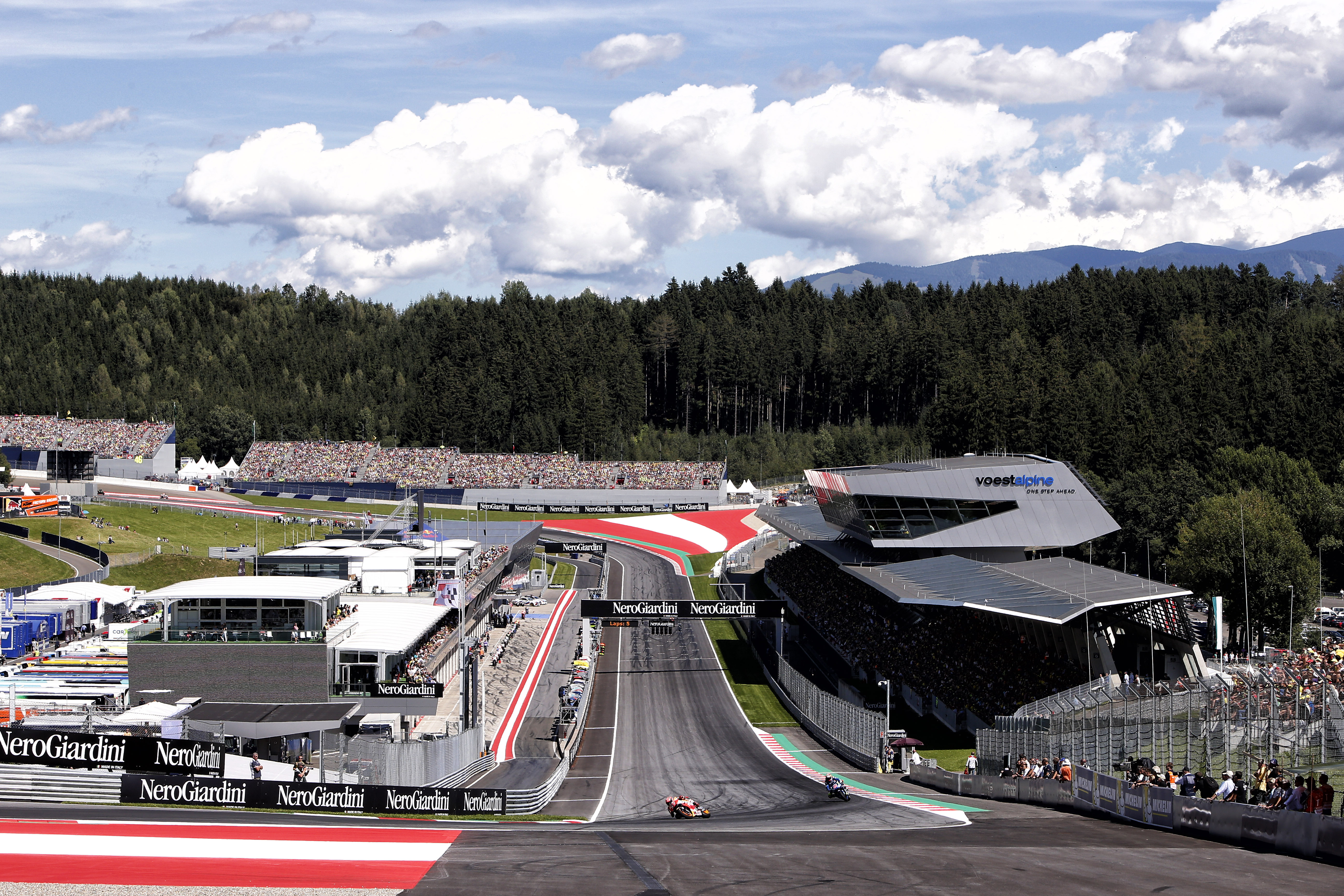 Marc Márquez, riding his Repsol Honda, being chased by the Ecstar Suzuki of Maverick Viñales at the 2016 Austrian Grand Prix.